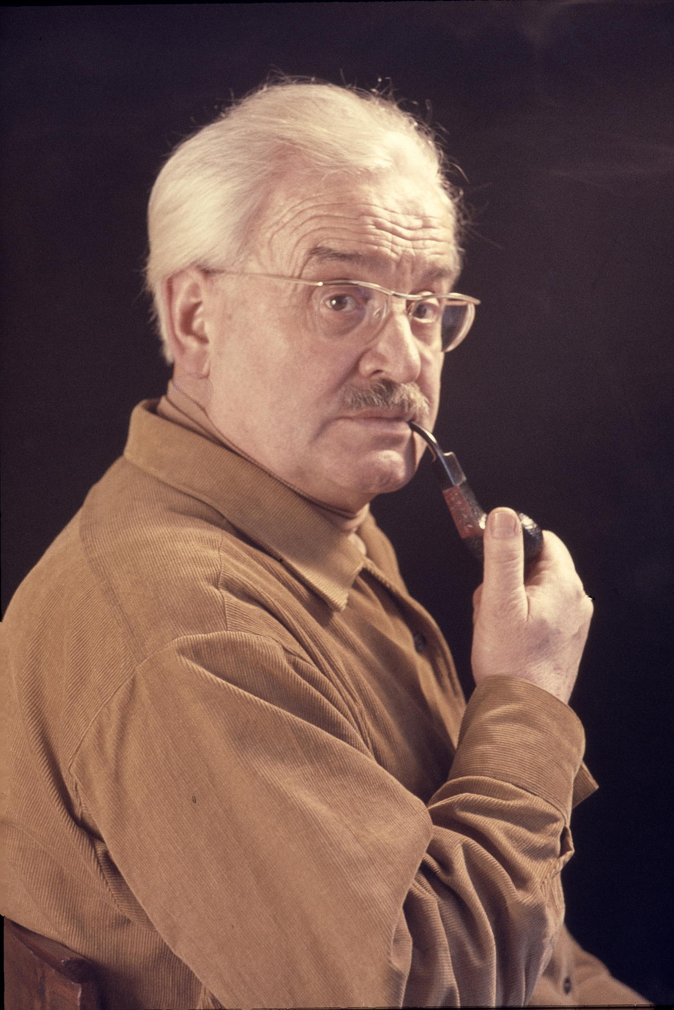 Dr. Georg Alfred Stockburger in 1961